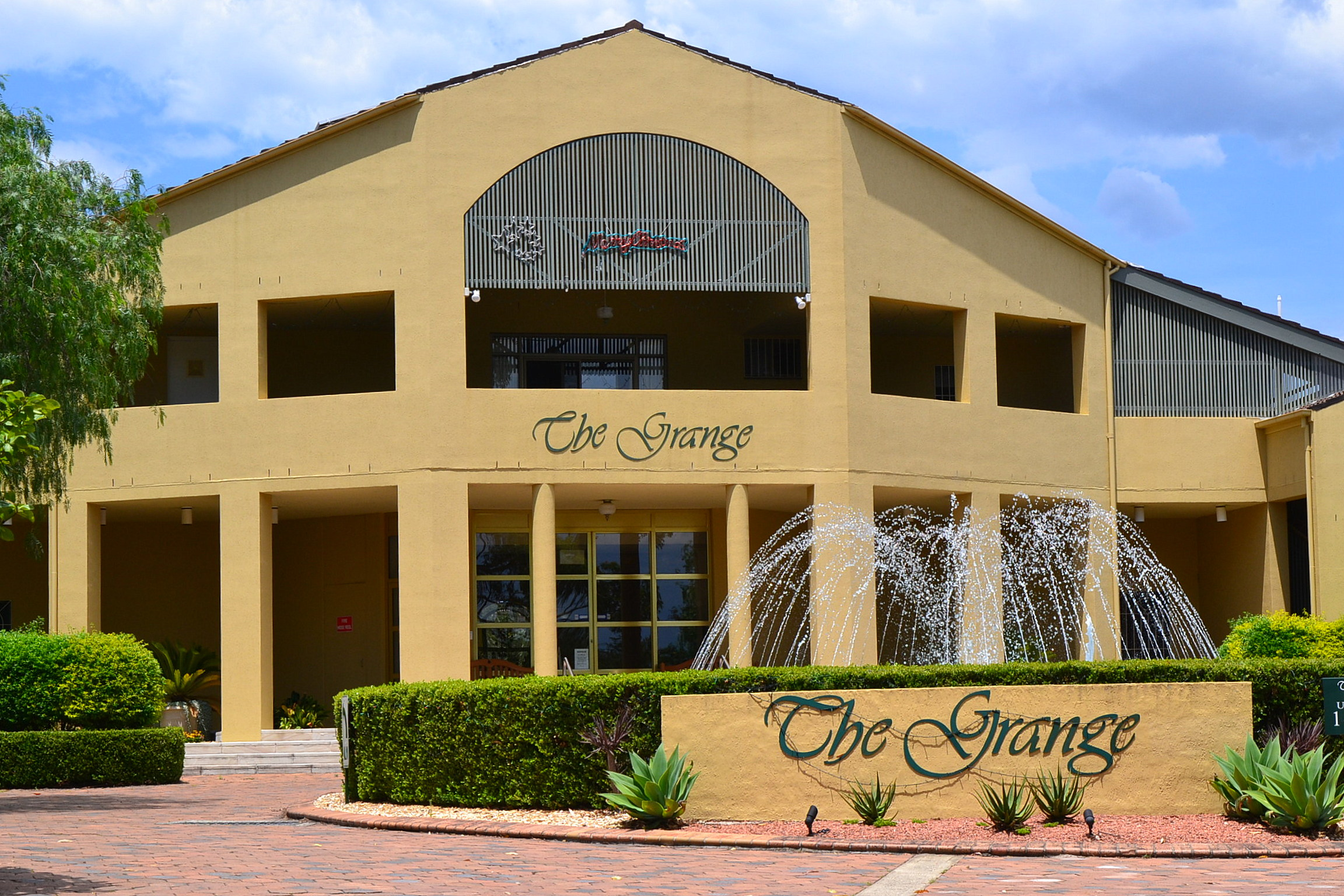 The Grange Retirement Village, Waitara, Sydney